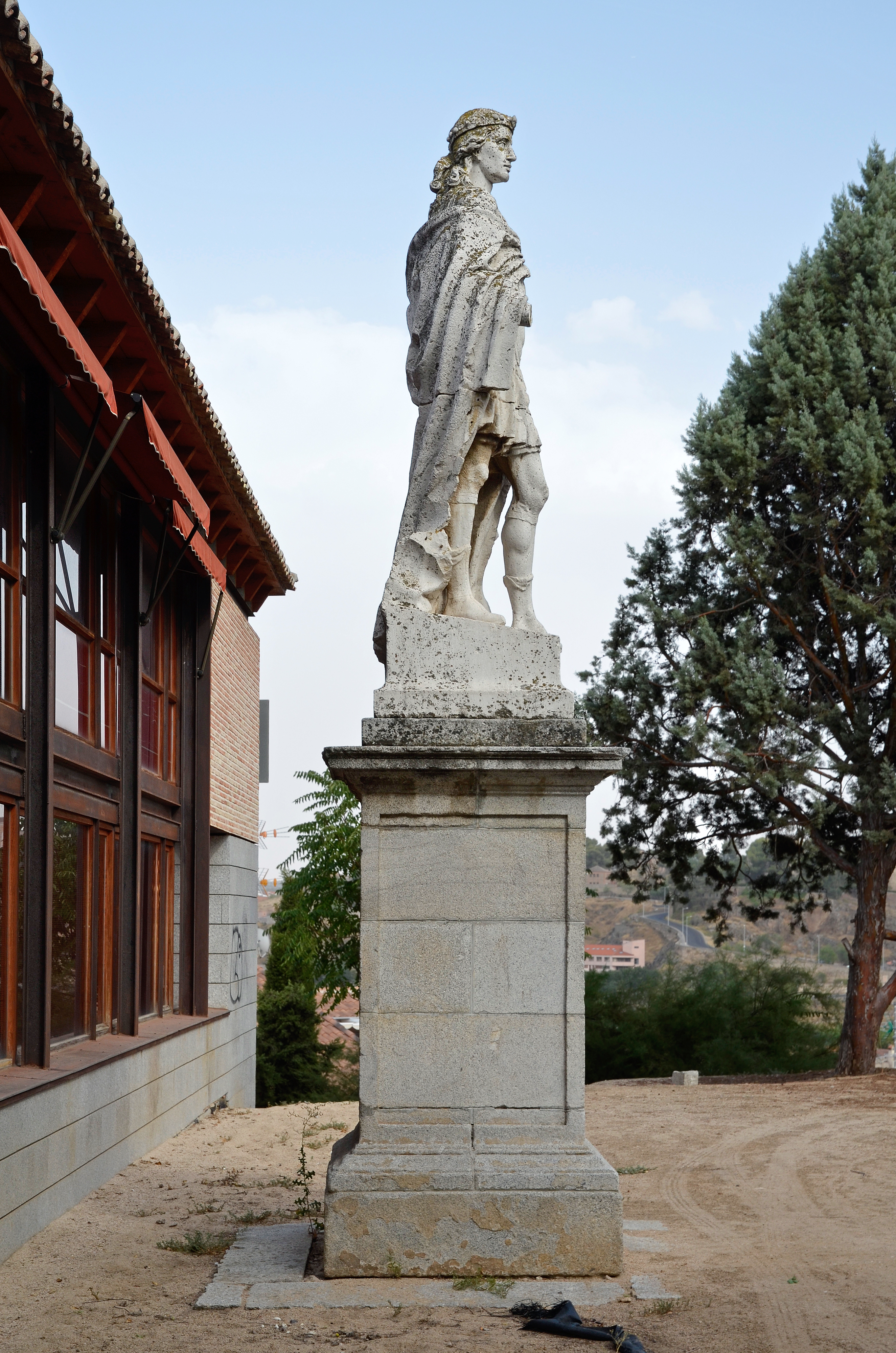 Statue of Sisebut - Toledo, Spain.